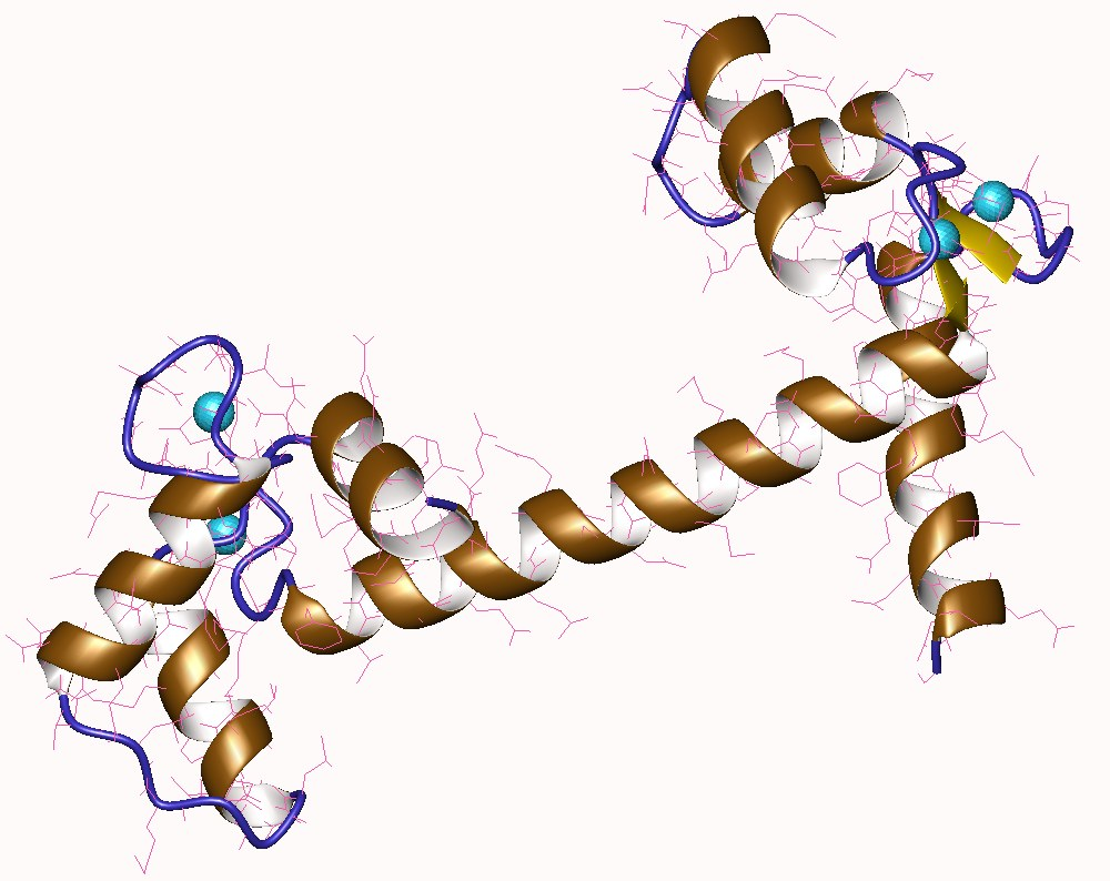 Calmodulin + 4 Ca (l.blue), Human